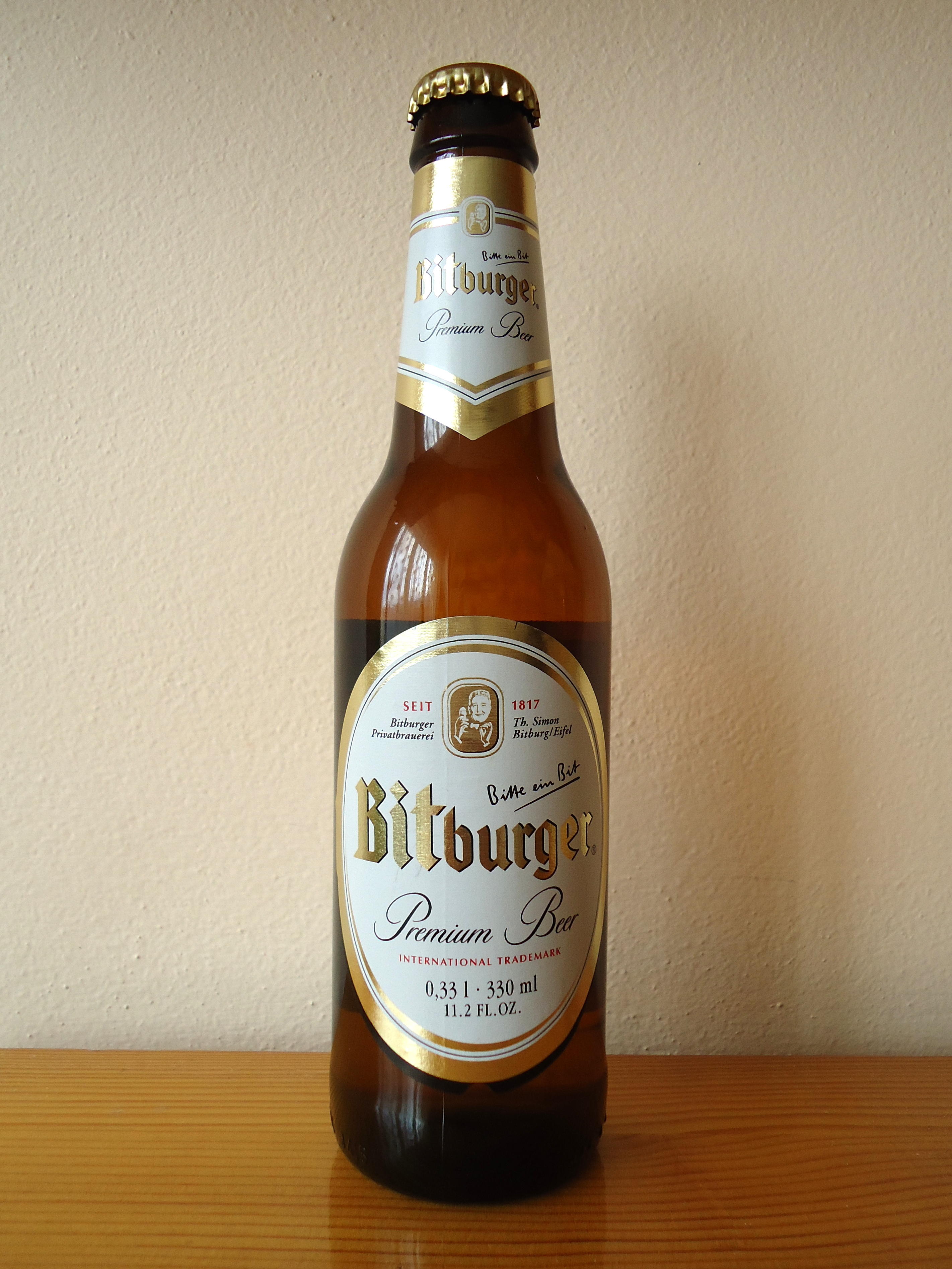 Bitburger Premium beer